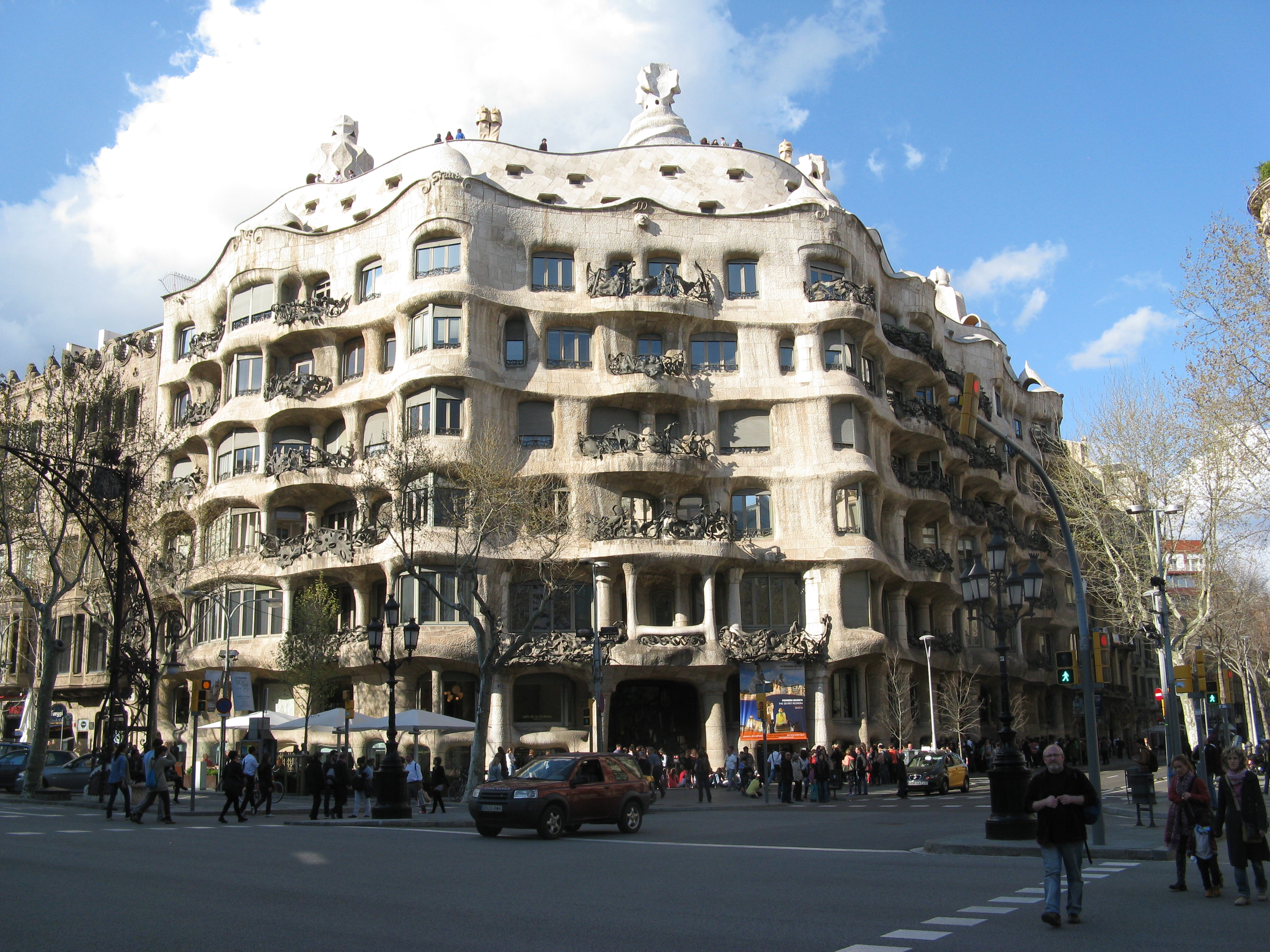 Casa Milà by Antoni Gaudí (Barcelona).